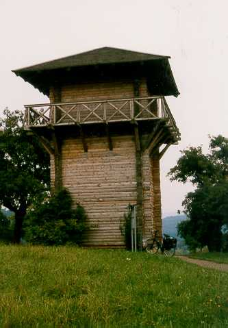 Reconstructed wooden Limes watch tower, near Lorch, Germany.